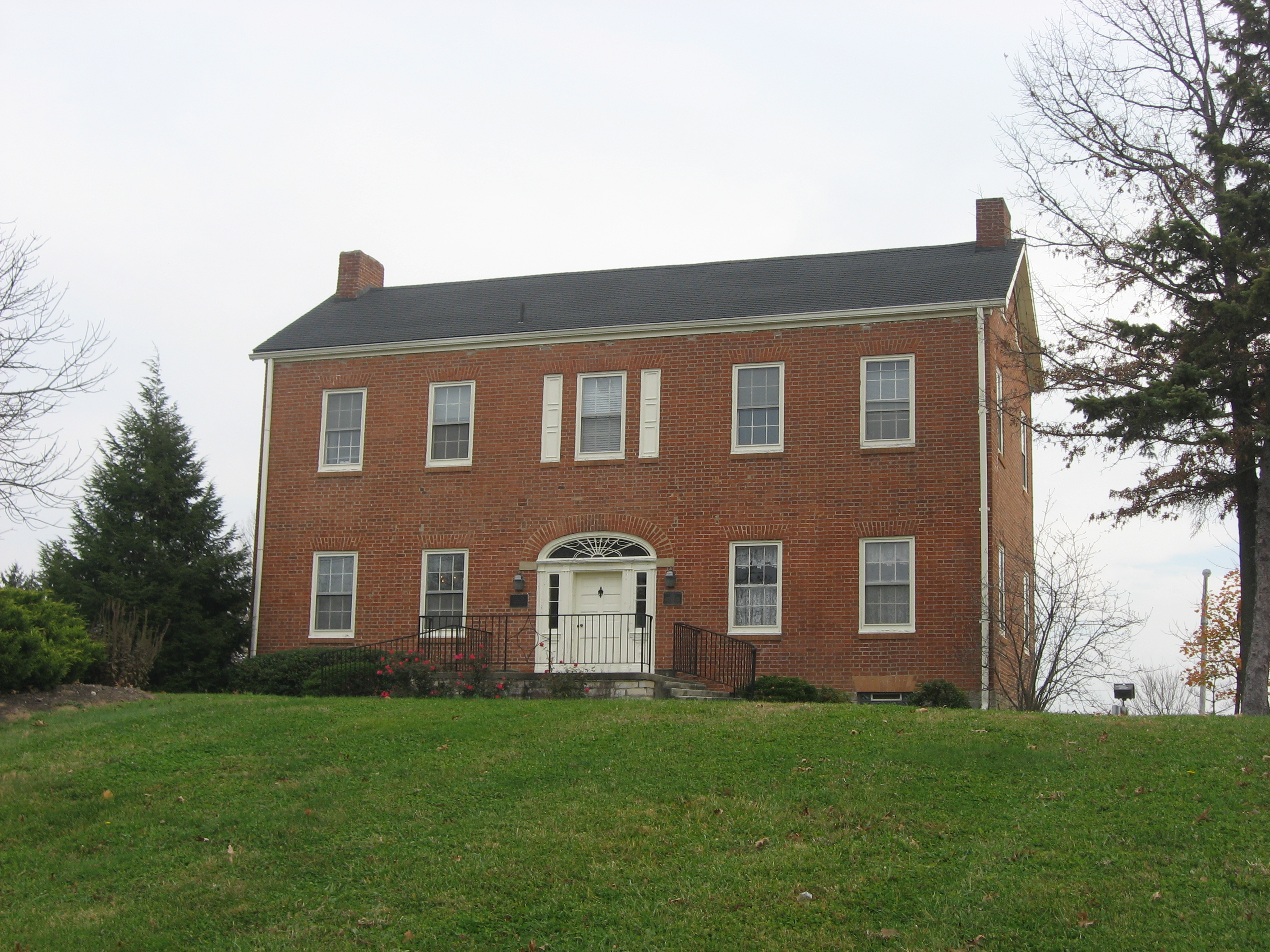 Front of the James Whallon House, located at 11000 Winton Rd. in Greenhills, Ohio, United States. Built in 1816, it serves as the village hall and is listed on the National Register of Historic Places.